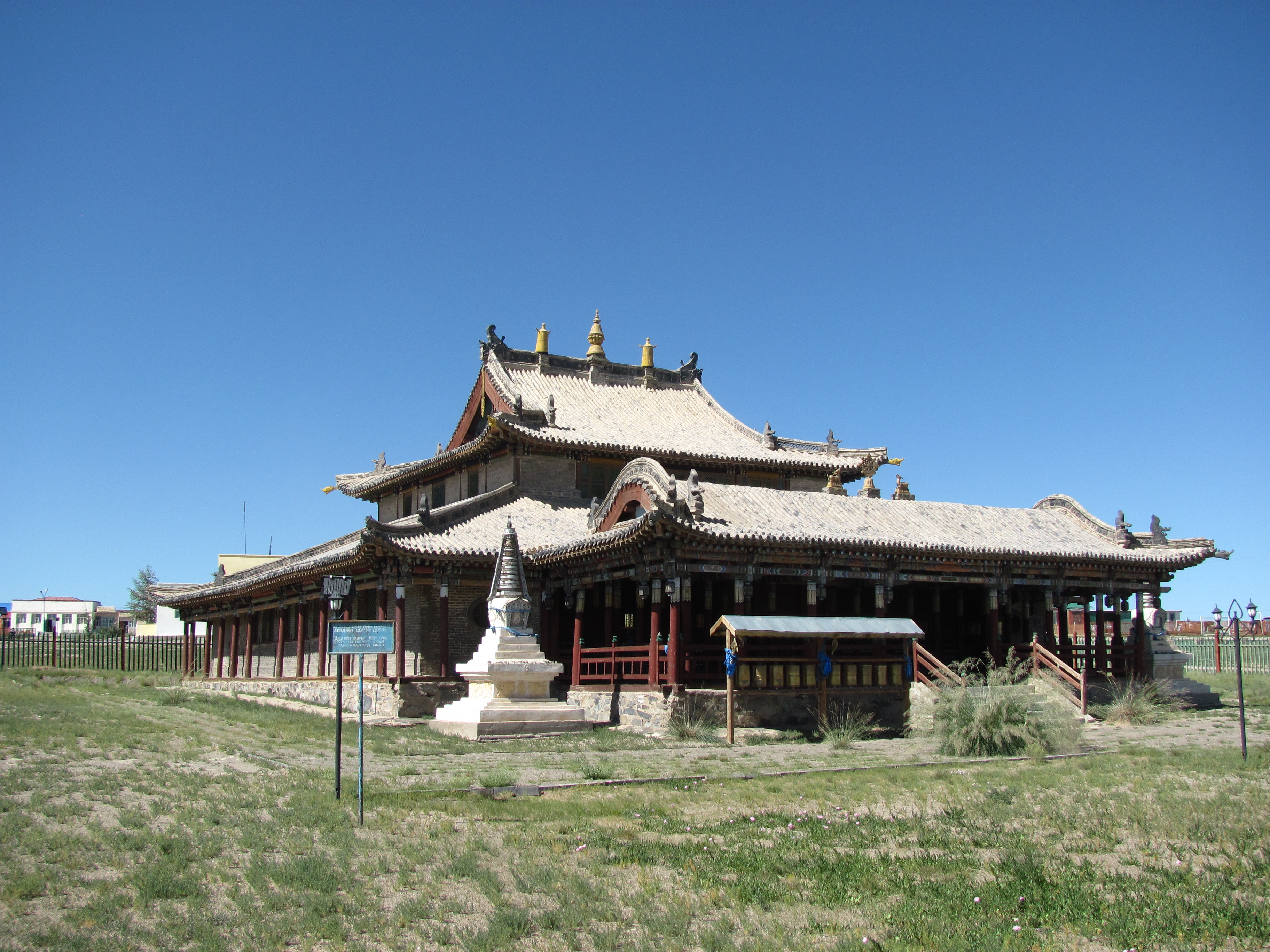 Temple in Erdenedalai, Dundgov Aimag, Mongolia.